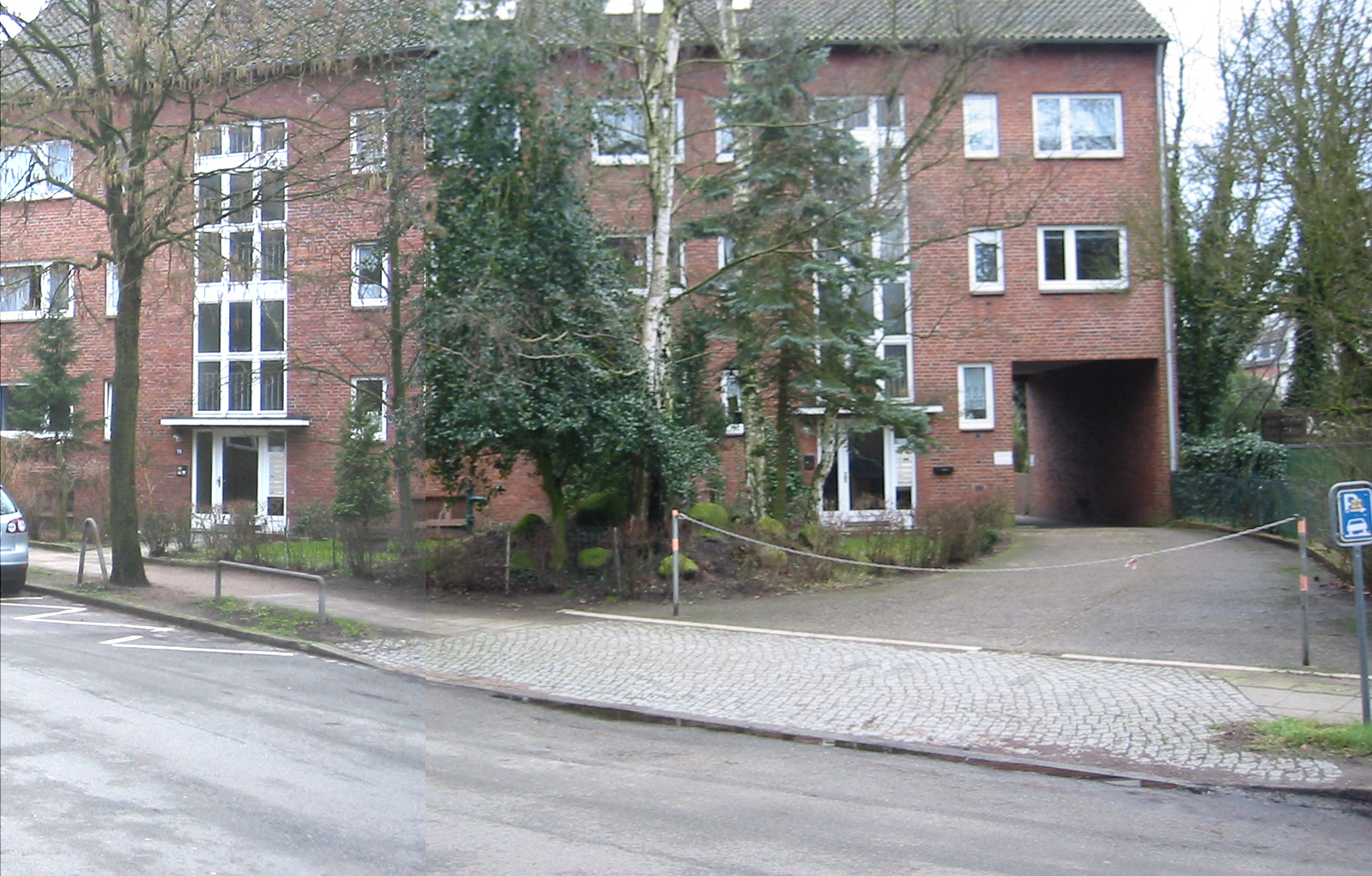 Building in Hamburg, Germany, where Petra Schelm, Red Army Faction member, was killed by police in July 1971.